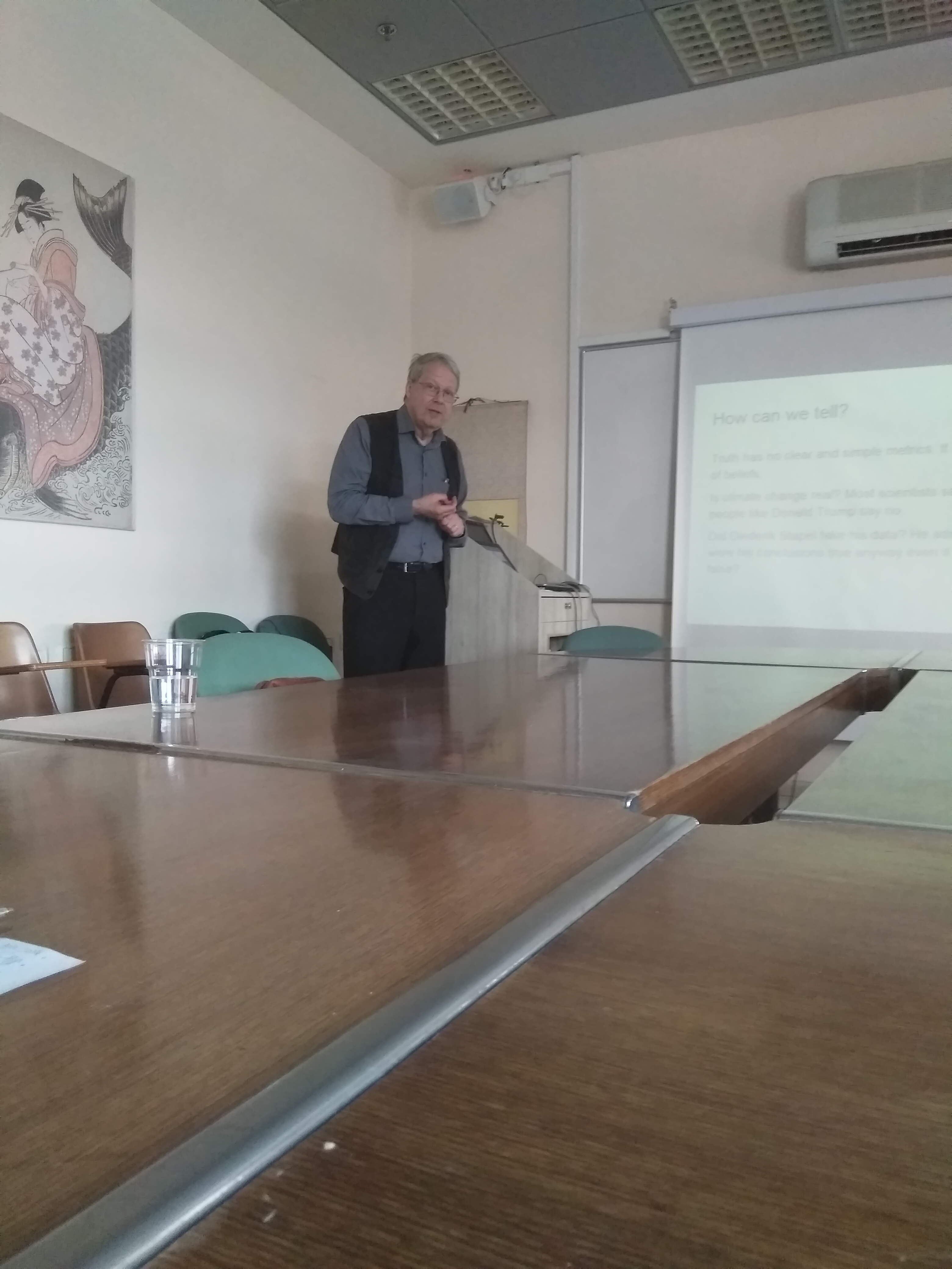 A man lecturing